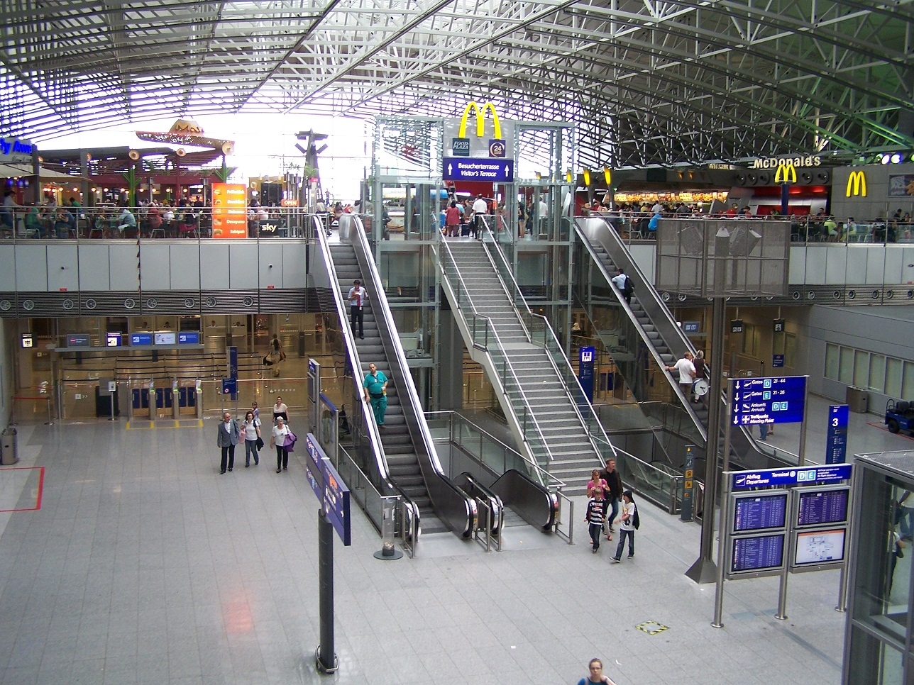 Frankfurt Airport, Terminal 2